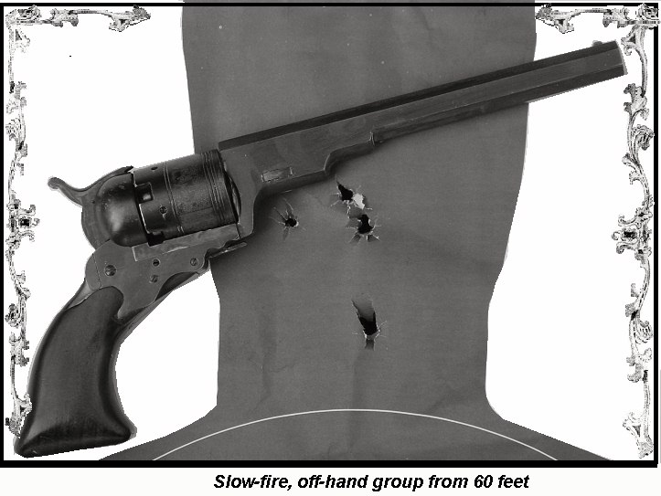 Uberti Replica of early Number 5 Belt Revolver (Texas Paterson). The group was fired single-handed standing at 60 feet.